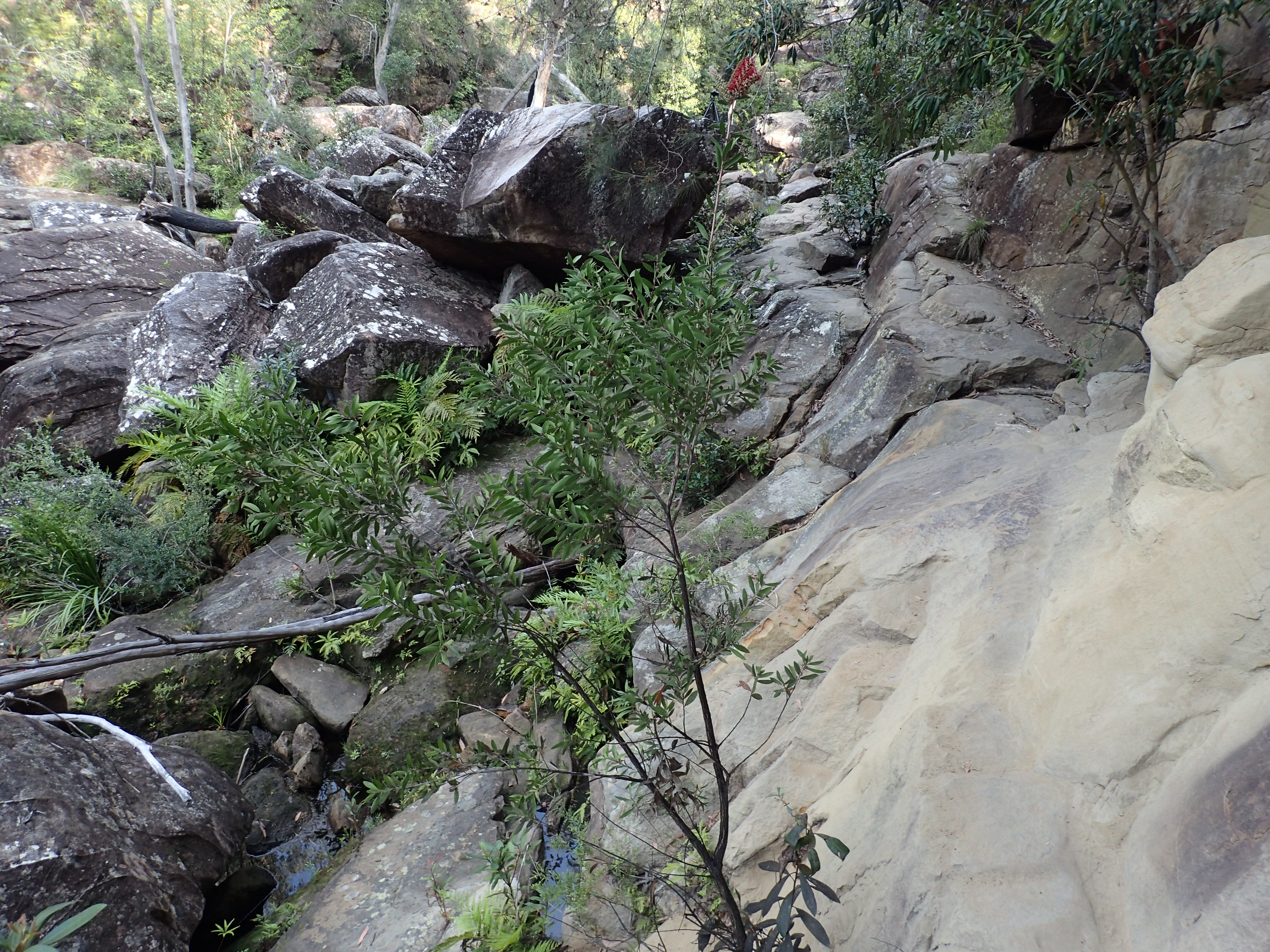 Melaleuca flammea (habit) growing near Middle Creek In Sherwood Nature Reserve